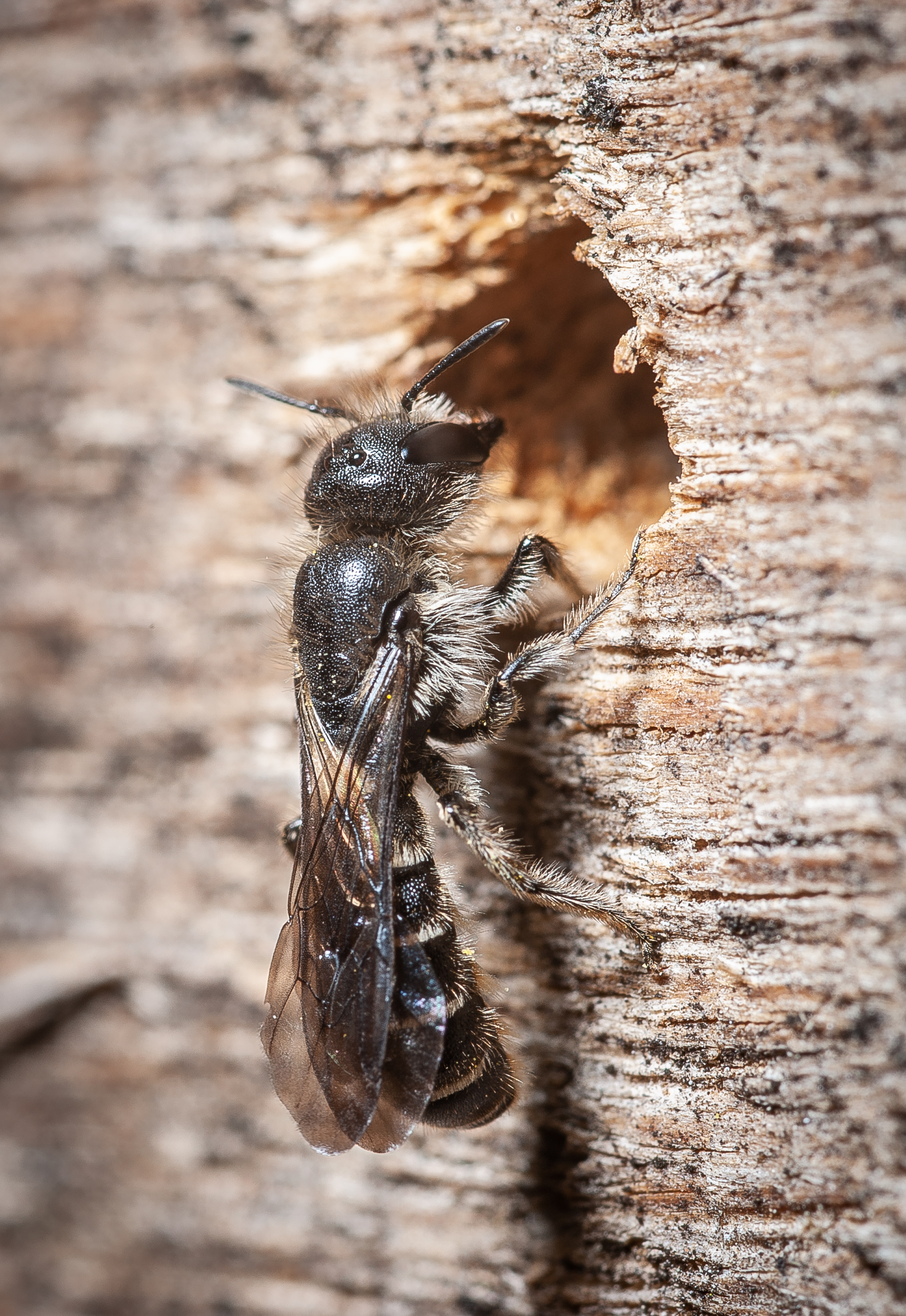 Chelostoma florisomne at a nesting aid, Stuttgart, Germany.Thanks to the members of Entomologie.de for the identification.